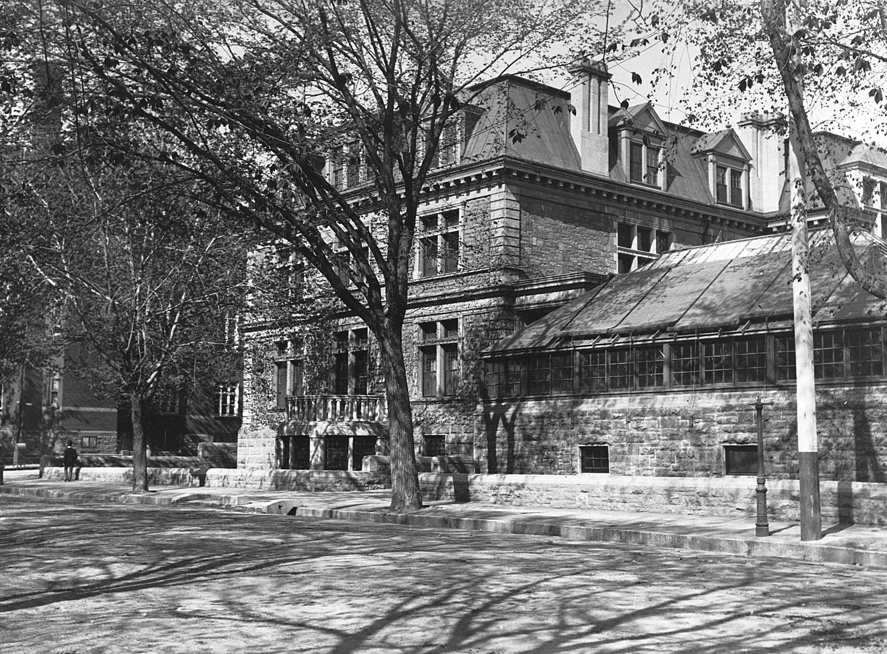 Photograph of Van Horne's house, Sherbrooke Street, Montreal, Quebec, Canada, about 1900. Silver salts on glass - Gelatin dry plate process